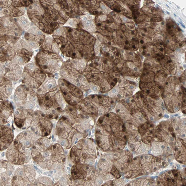 Immunohistochemical staining of human stomach shows strong nuclear and cytoplasmic positivity in glandular cells